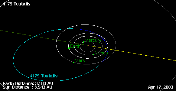 Orbit of asteroid 4179 Toutatis